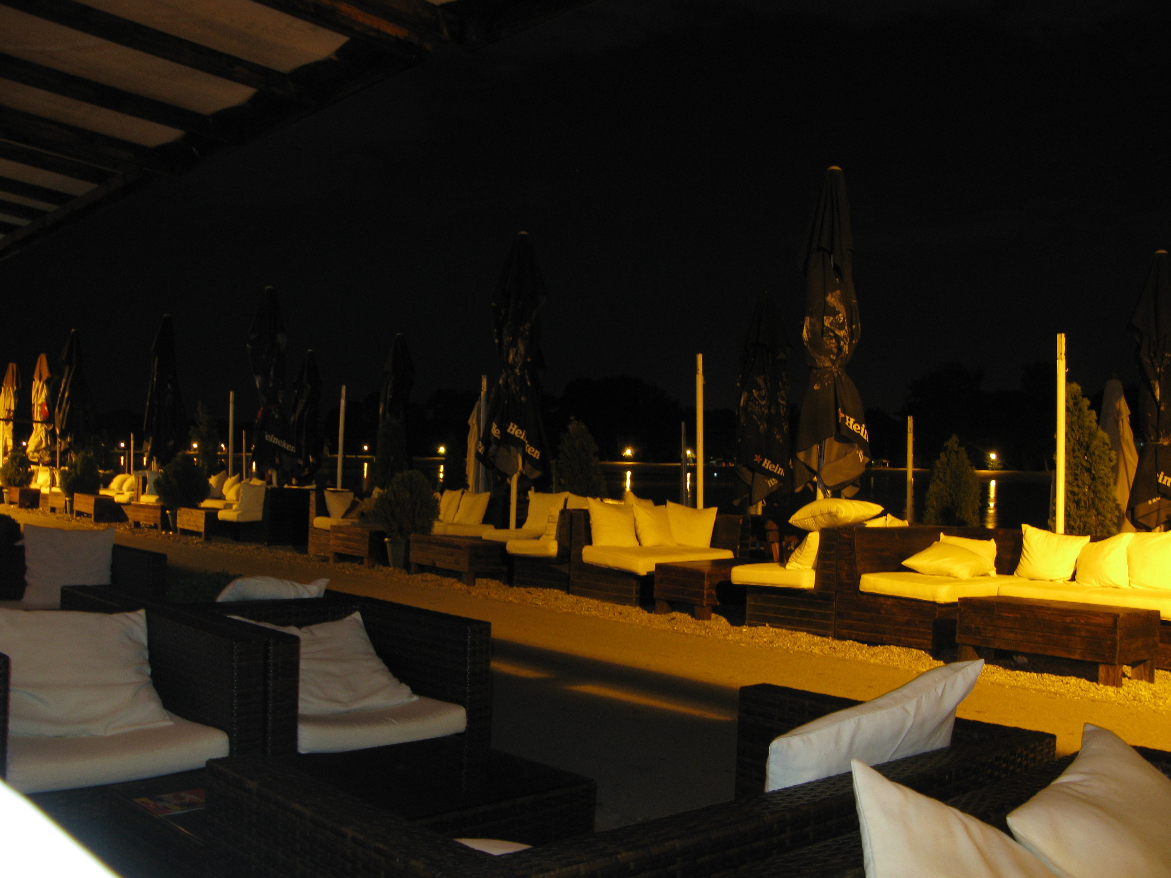 lounge at Ada Ciganlija by night